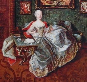 Luise Dorothea of Saxe-Meiningen, duchess of Saxe-Gotha-Altenburg